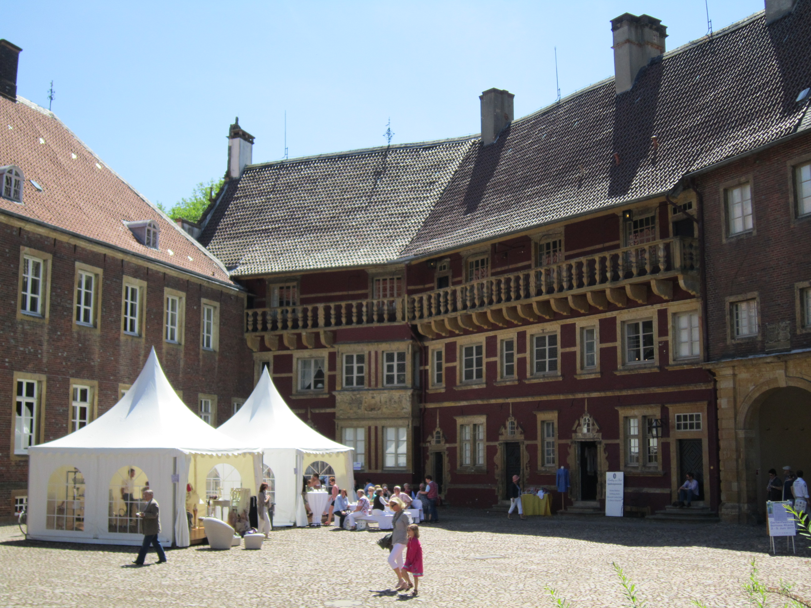 Garden festival at Rheda Castle